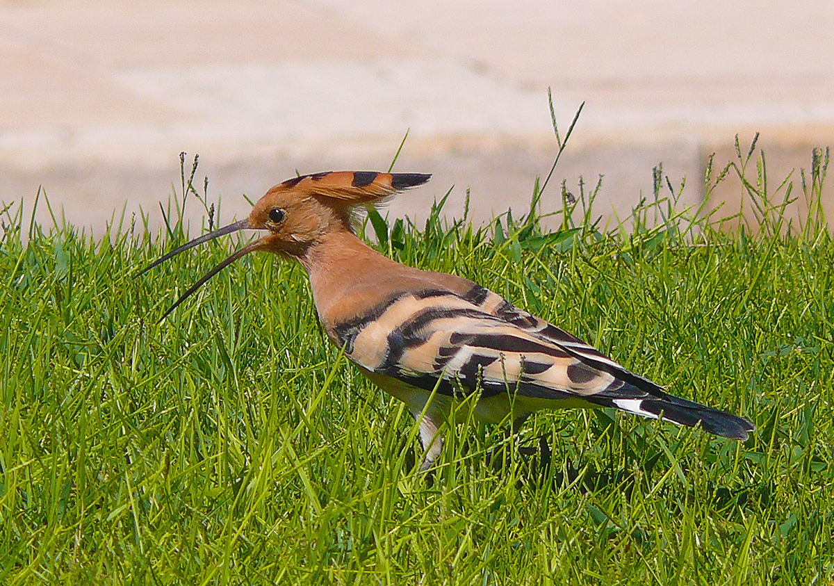 Upupa epops, Israel's national bird, Caesariya (Qaeseria), Israel, 2012